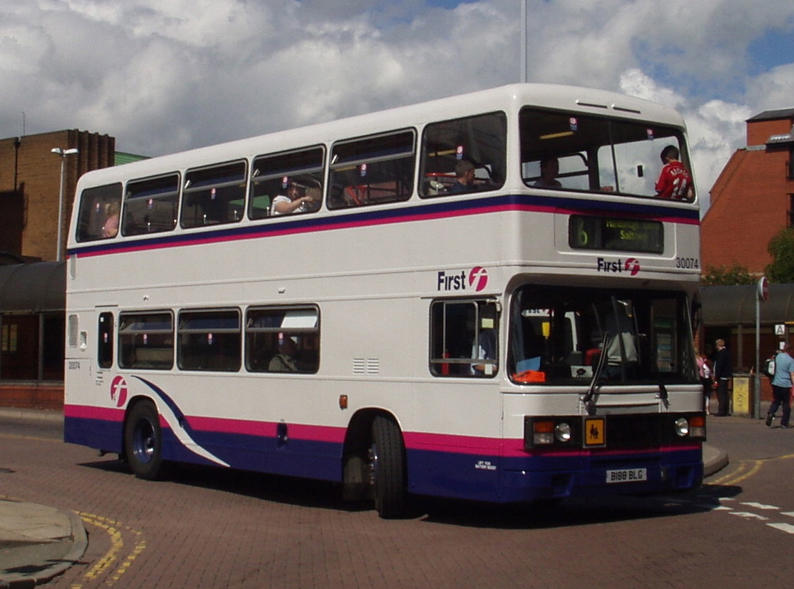 First Chester and the Wirral Leyland Olympian B188 BLG 30074 in Chester Bus Exchange